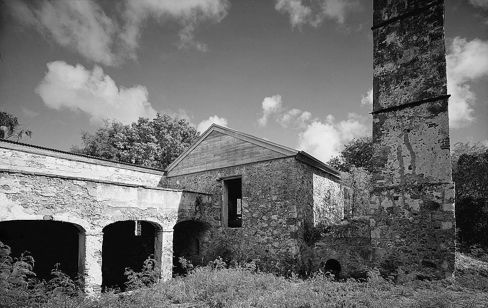 North view of Estate Reef Bay sugar factory — in Virgin Islands National Park on St. John island, United States Virgin Islands. A Historic district on the National Register of Historic Places in Virgin Islands National Park.